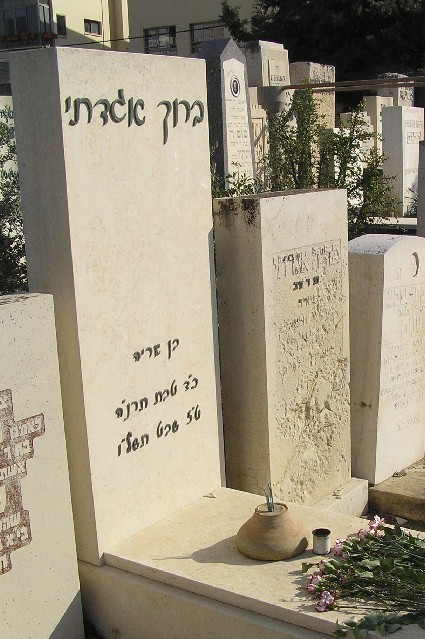 Barukh Agadati's tomb in Trumpeldor cemetery in Tel Aviv February 2006, by Eman